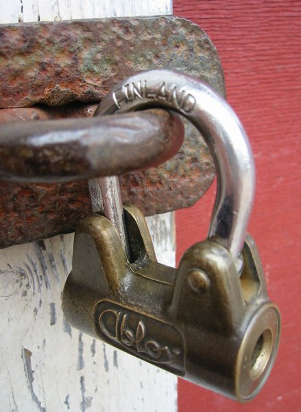 Padlock made by Finnish company Abloy.